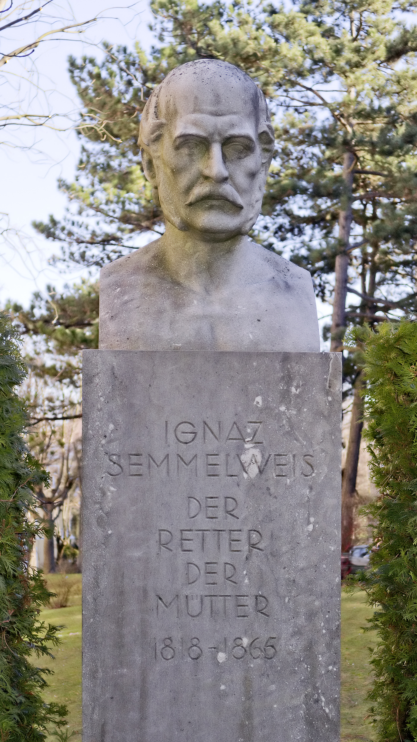 Hospital Semmelweis-Frauenklinik in Vienna Währing